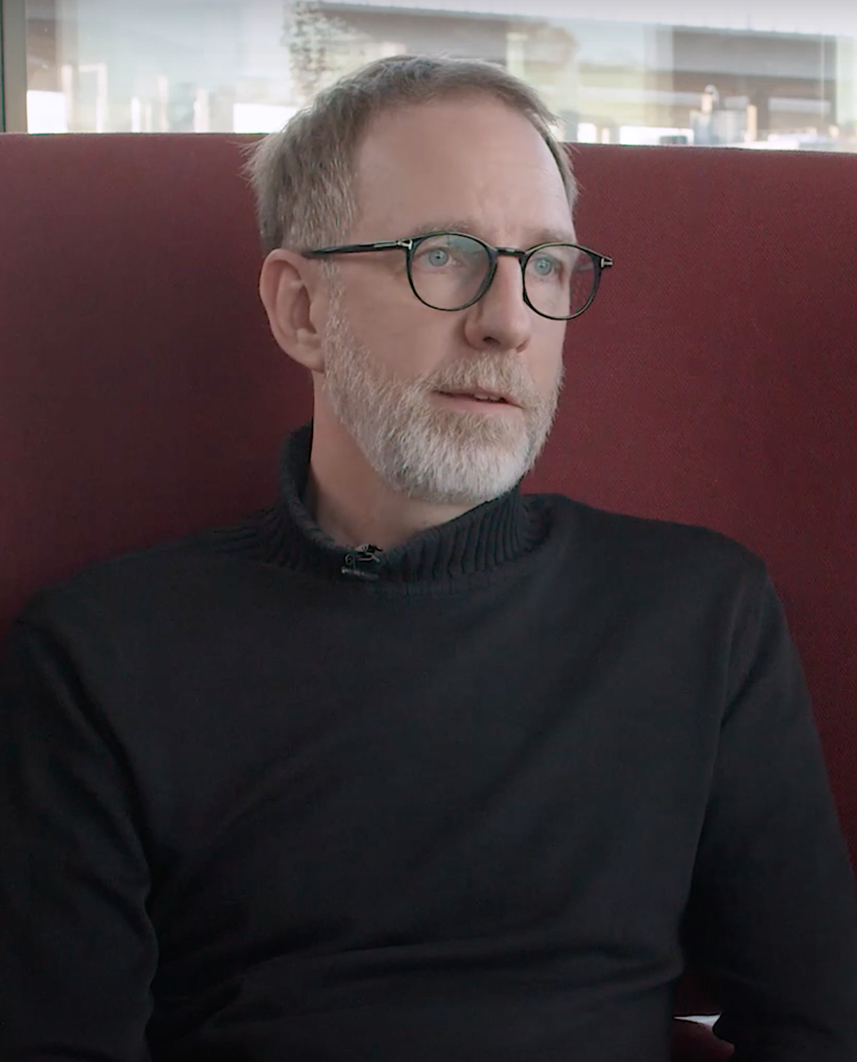 Rickard Schoultz, Swedish web developer. Screenshot from a video interview made by Internetmuseum 2020.